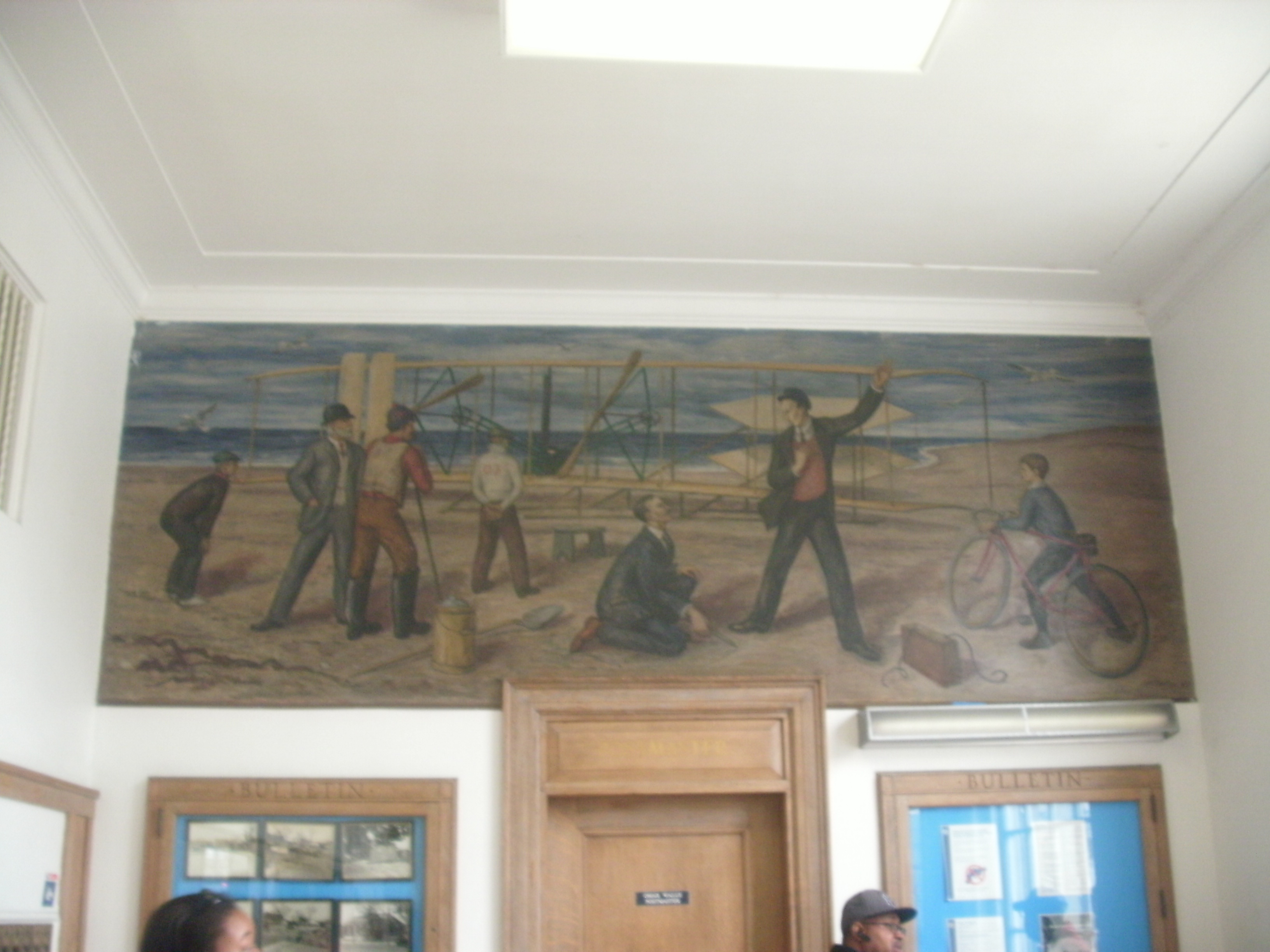 Williamston, North Carolina, March, 2015 GEDSC DIGITAL CAMERA